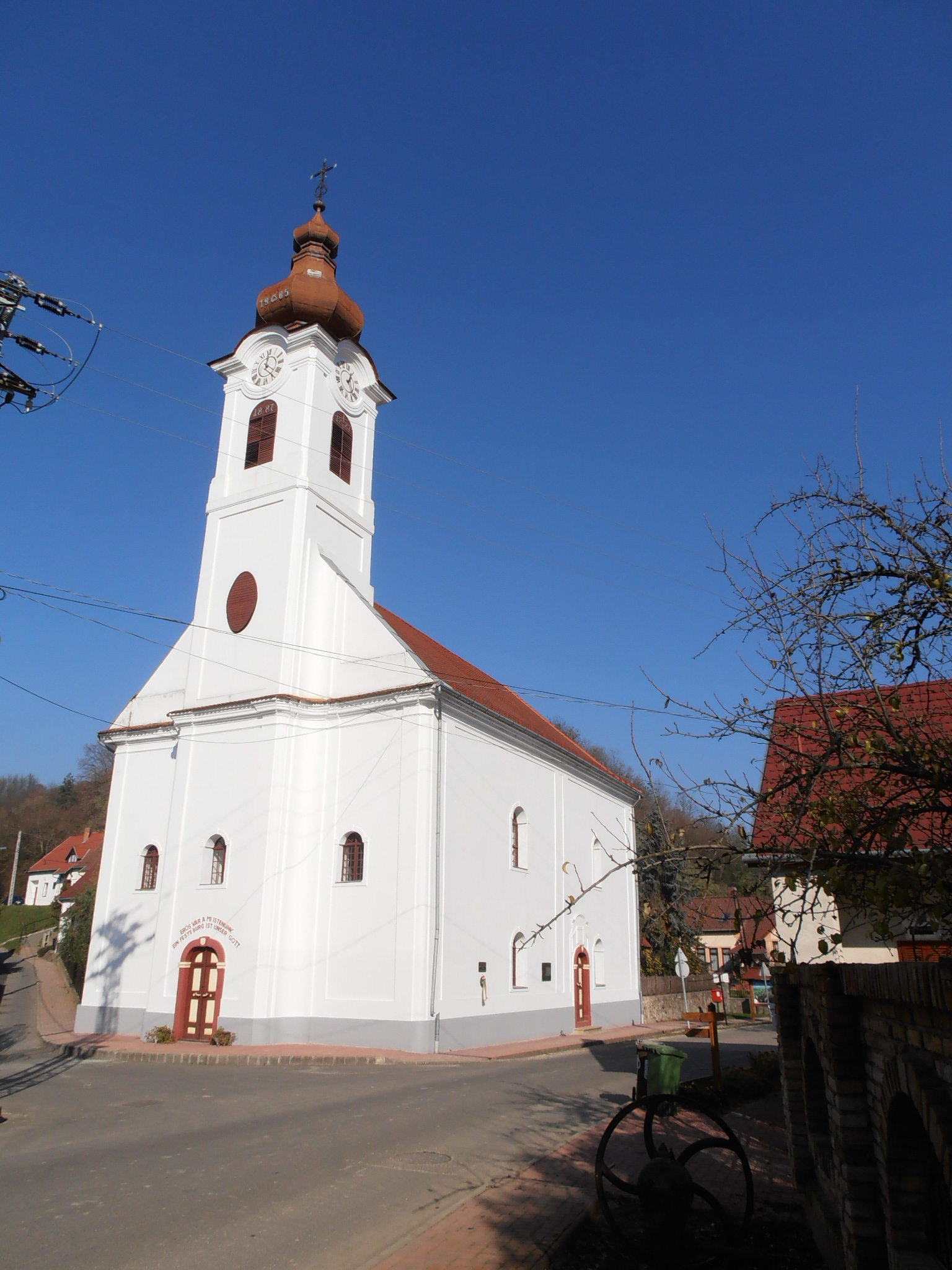 Evangelic temple in Bátaapáti, Hungary